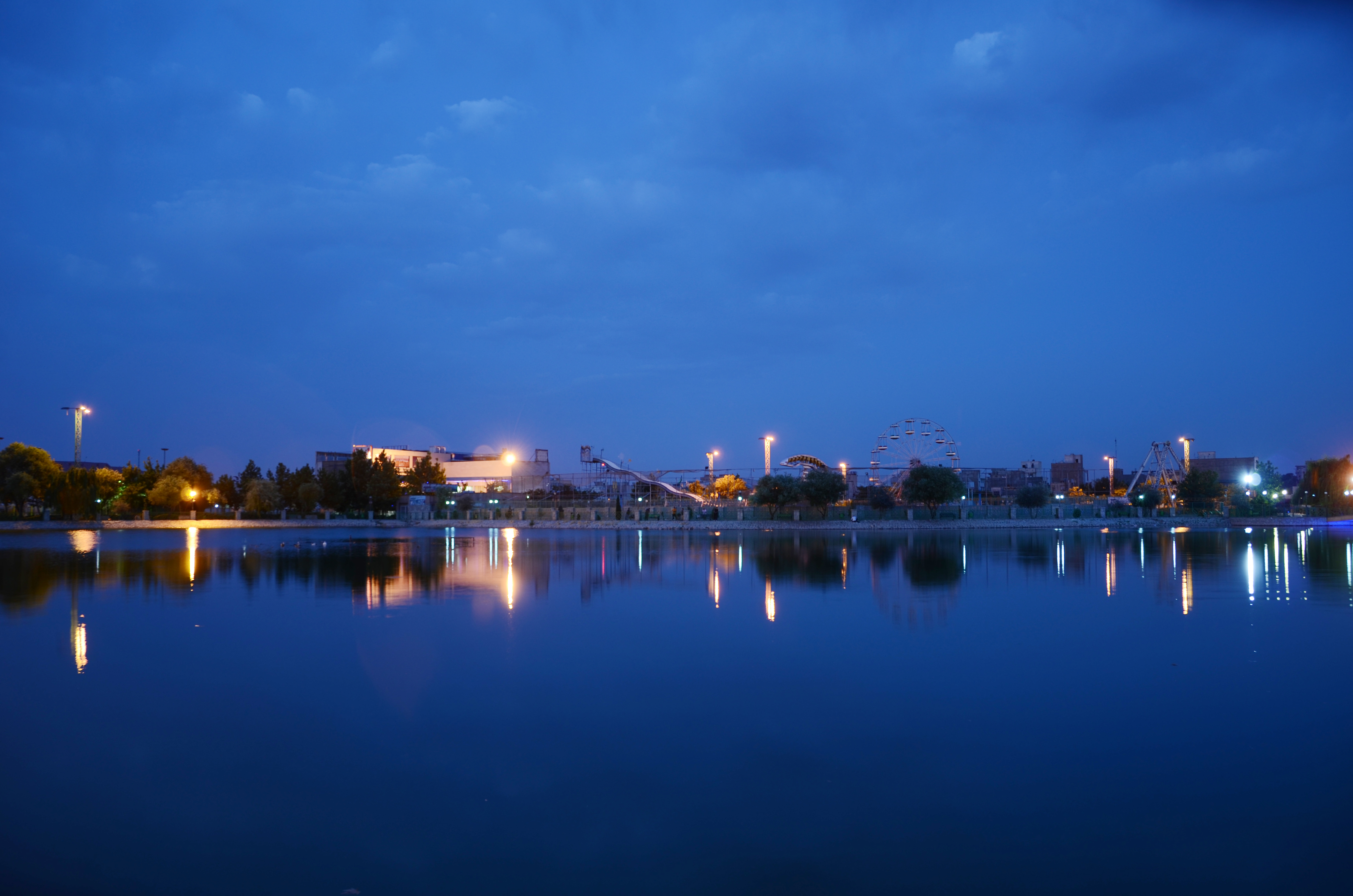 Iran - Tehran - Razi Park in the morning